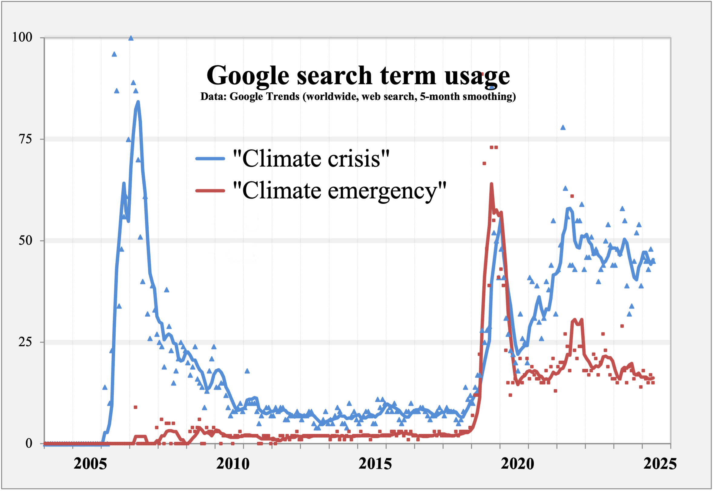 Graph of Google search term usage (web searches, global) for "climate crisis" and "climate emergency". Data source: Google trends